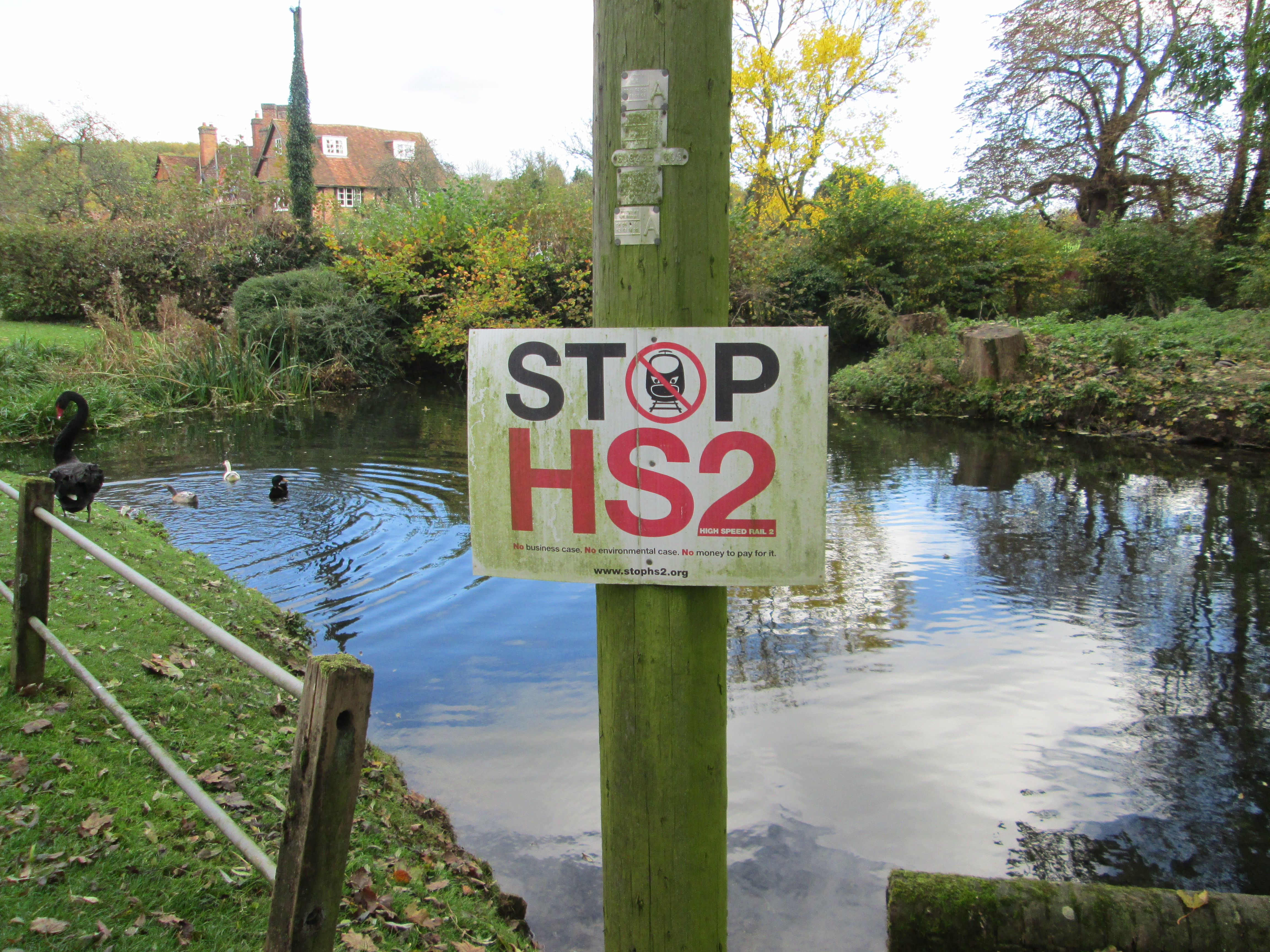 A "Stop HS2” sign next to the duck pond in Little Missenden, Buckinghamshire, UK